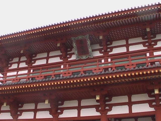 Suzaku Geat